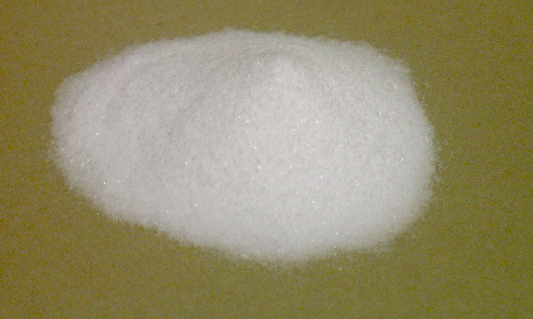 Sodium bicarbonate, sodium hydrogencarbonate, sodium bicarb, "baking soda", "bread soda", "cooking soda", bicarb soda